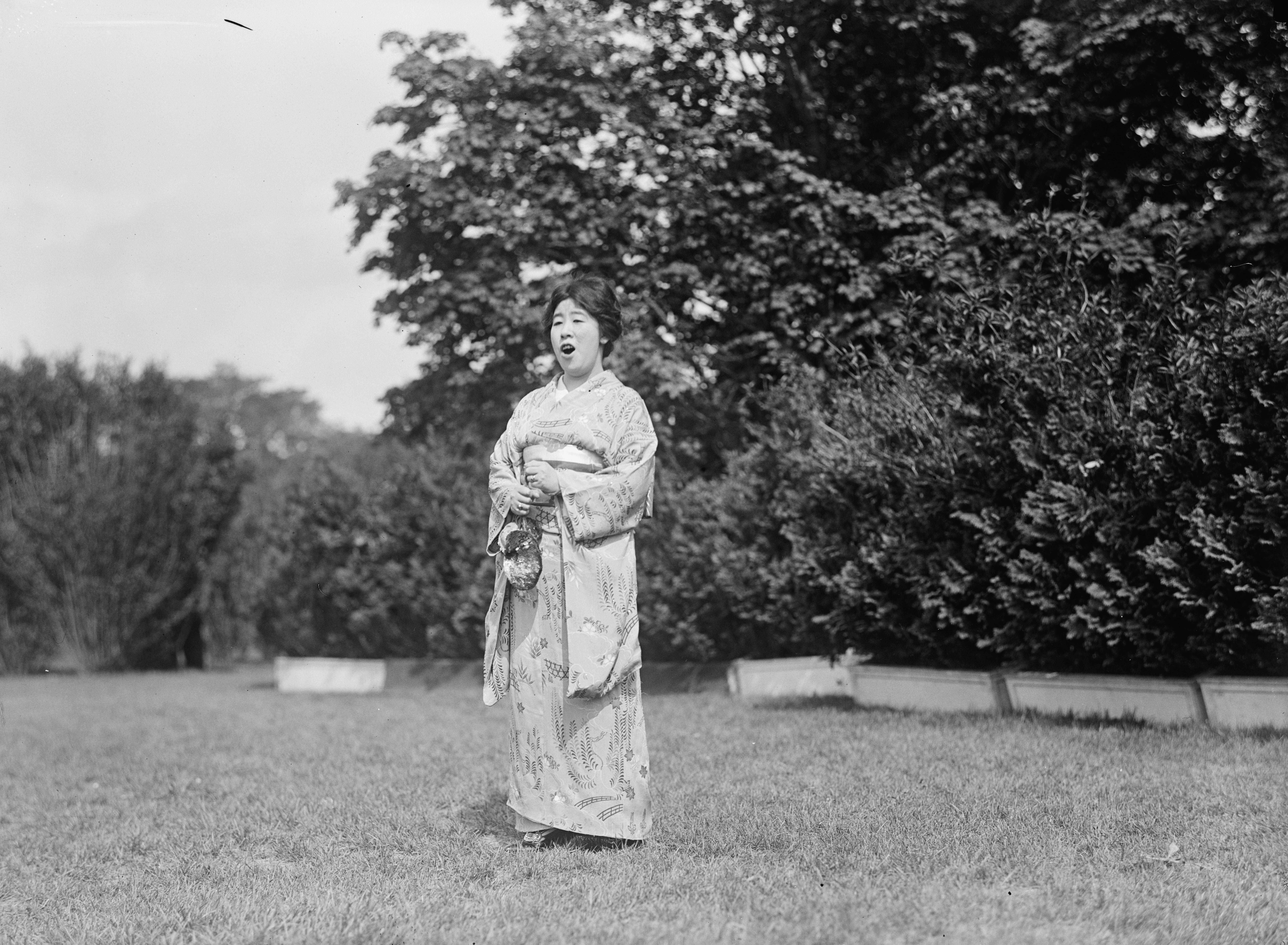 Photo shows Tamaki Miura who performed at the opening of the Sylvan Theatre in 1917 (Source: Megan Brett, 2013).